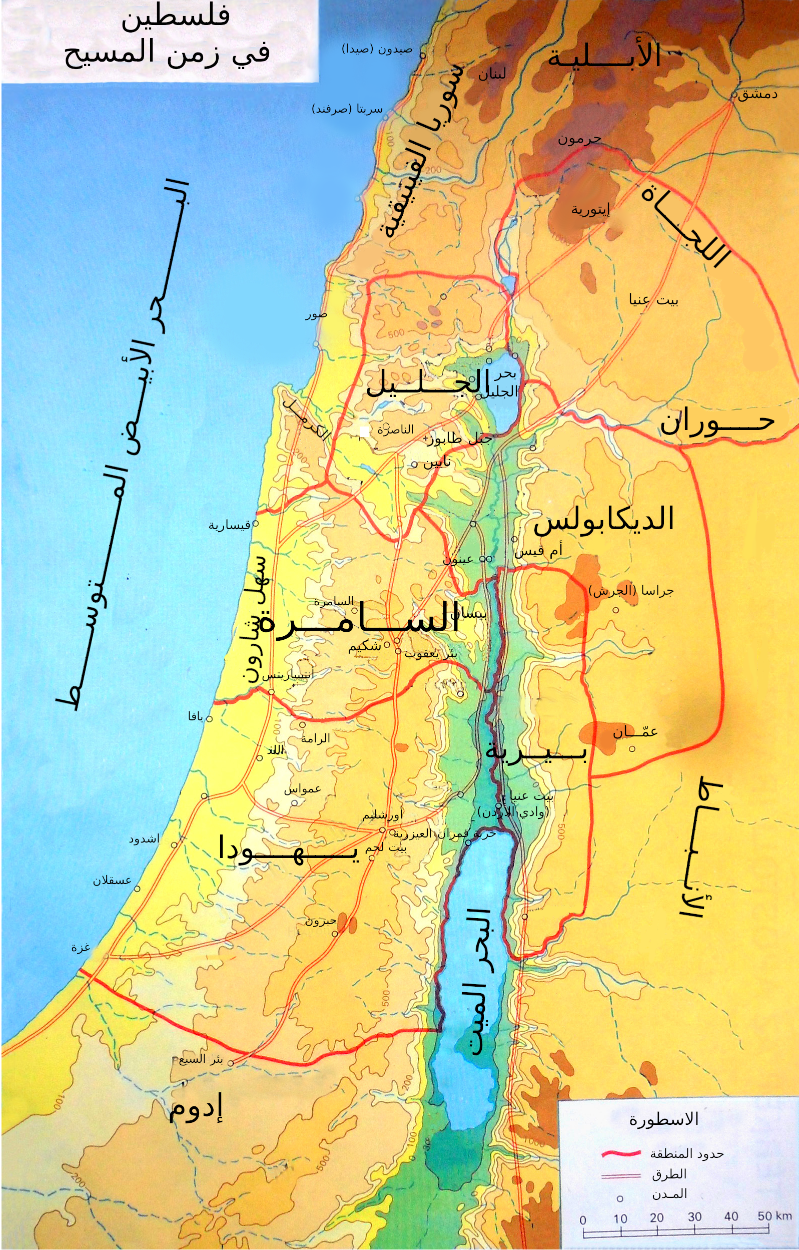 Palestine at the time of Jesus